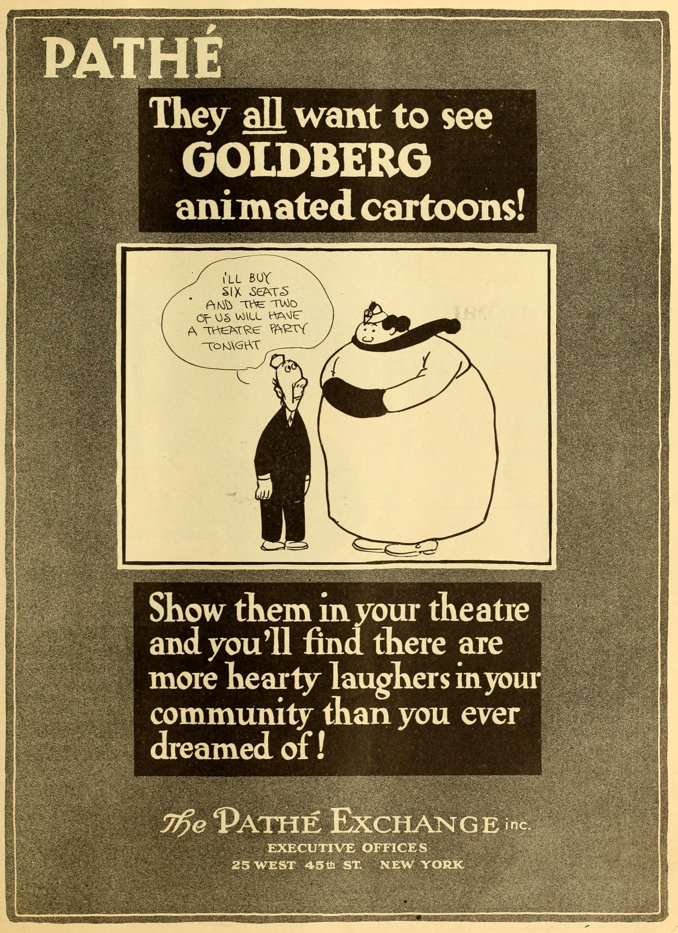 Advertisement in The Moving Picture World